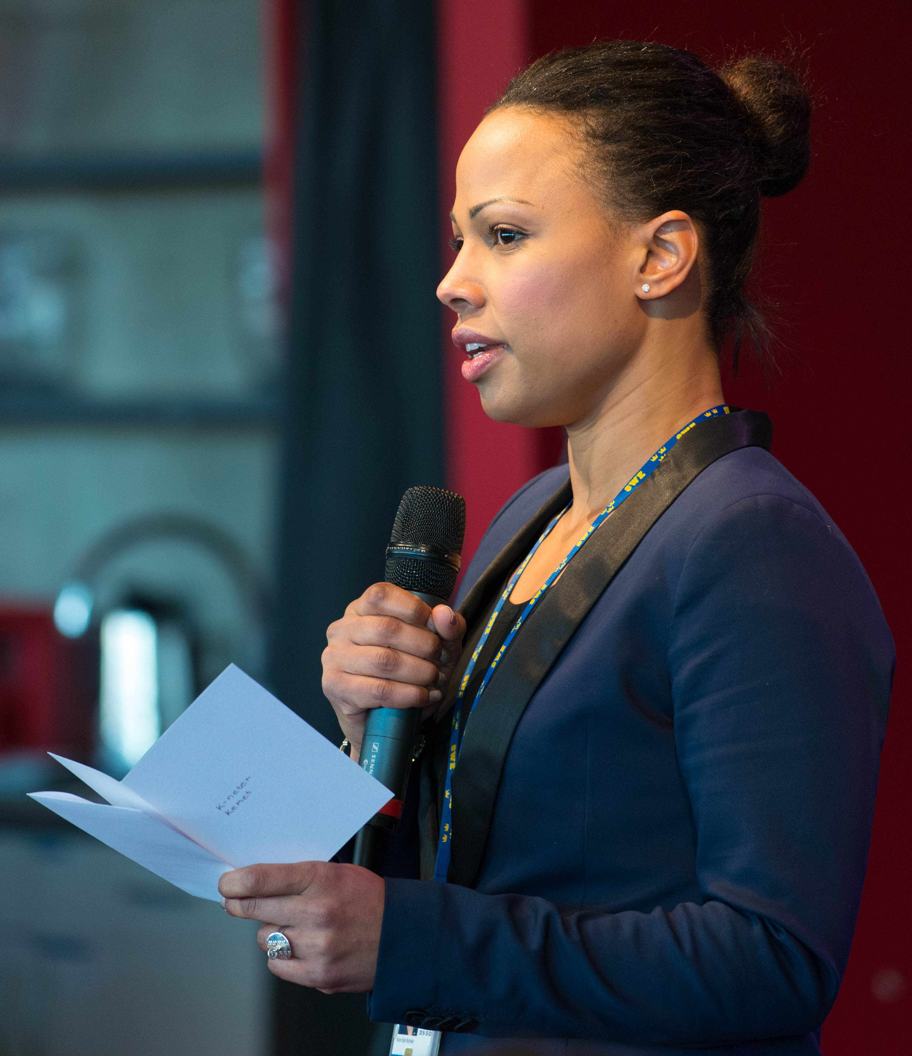 Alice Bah Kuhnke in a rally in support of threatened artists and writers at the Kulturhuset Stadsteatern in Stockholm, February 14th 2015.